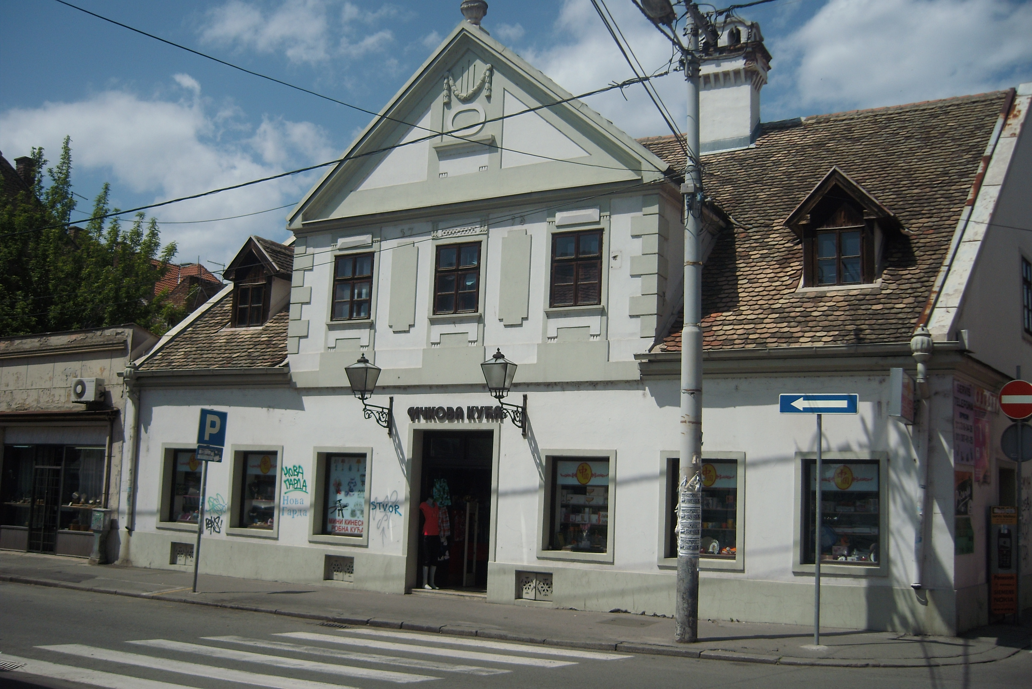 Zemun Ichko's House